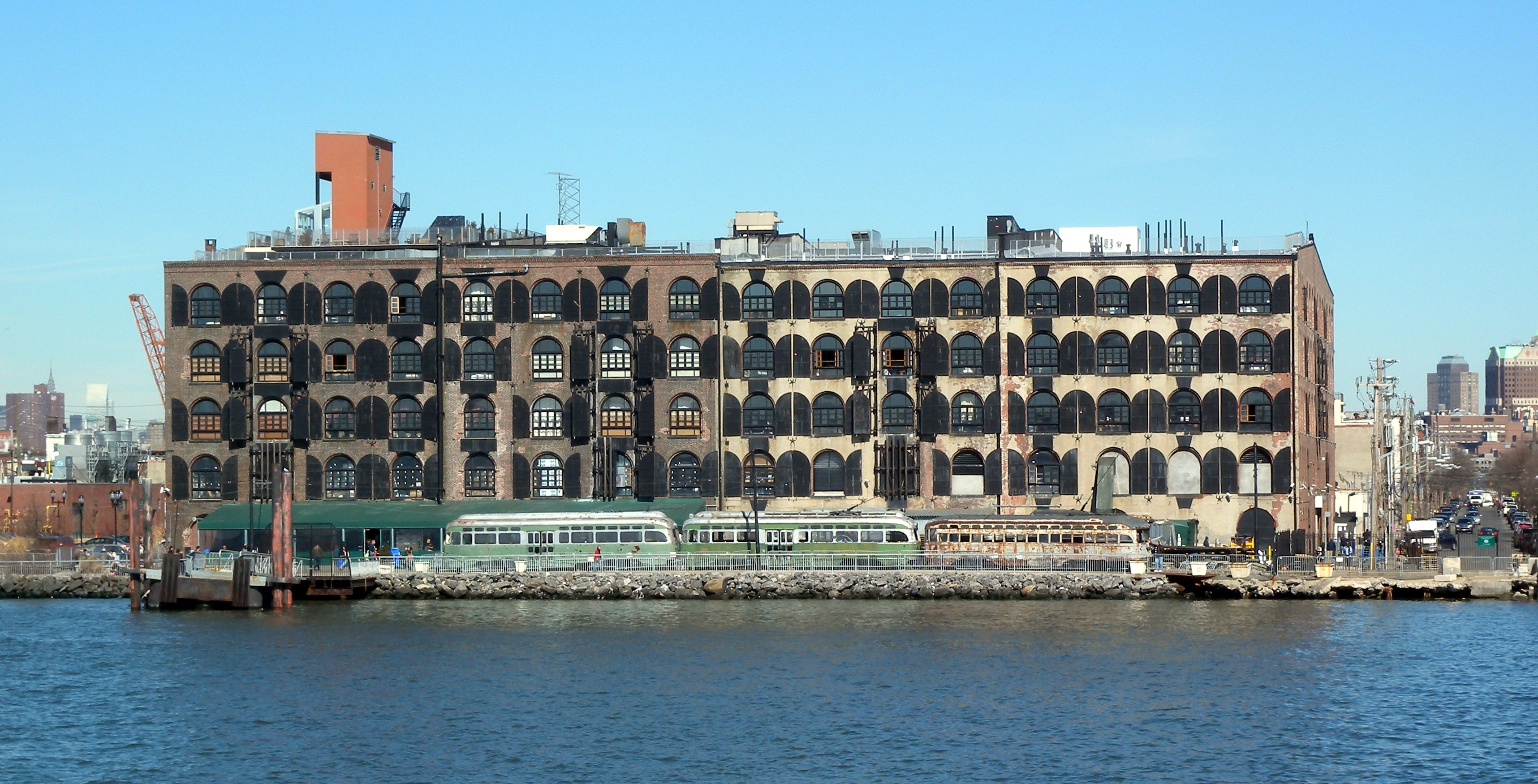 Looking north from a boat about to enter Erie Basin, at Fairway Market with 3 trolley cars.